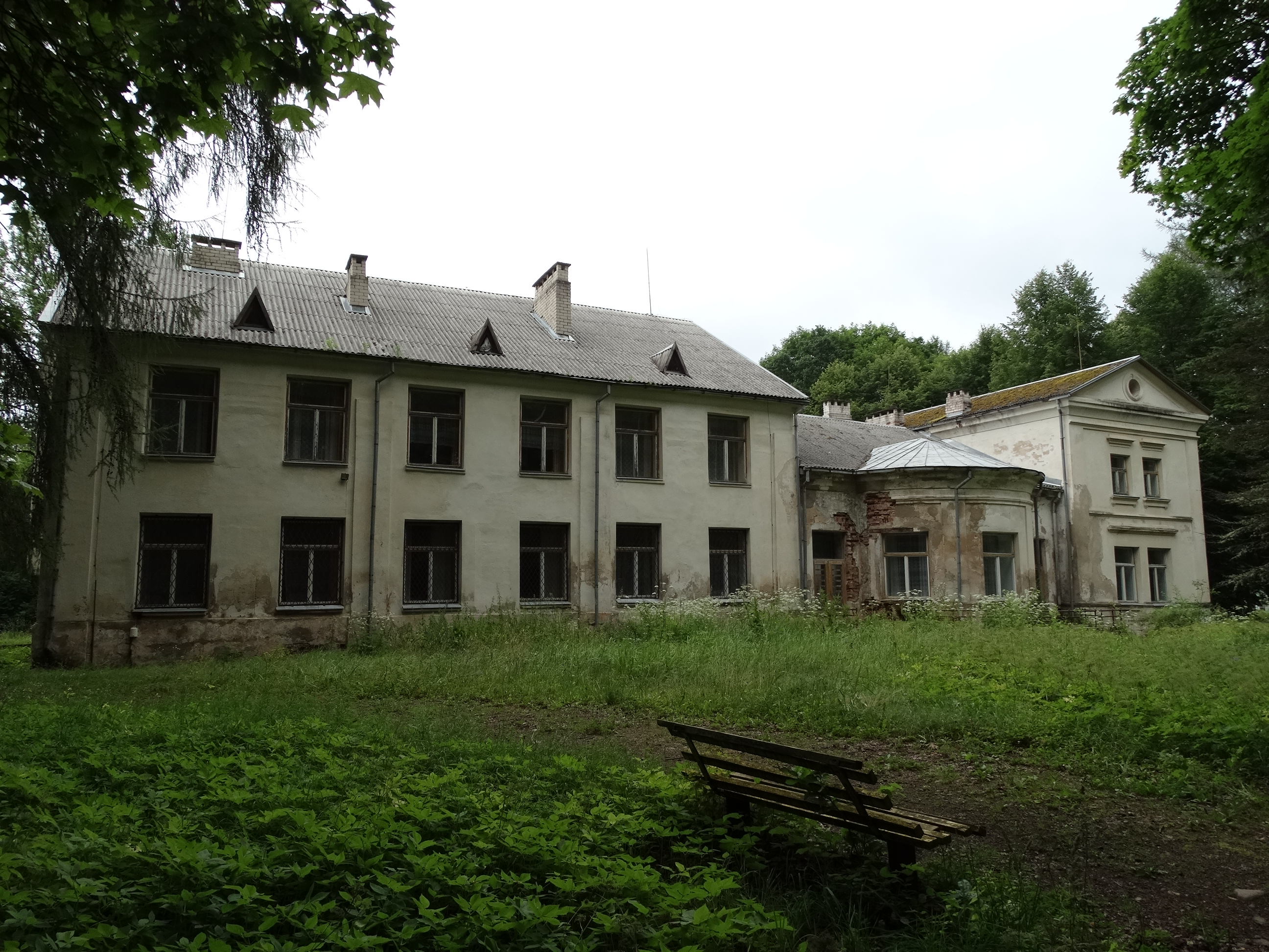 Paneriai manor, Elektrėnai Municipality, Lithuania